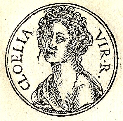 Cloelia is a figure from the early history of the city of Rome.